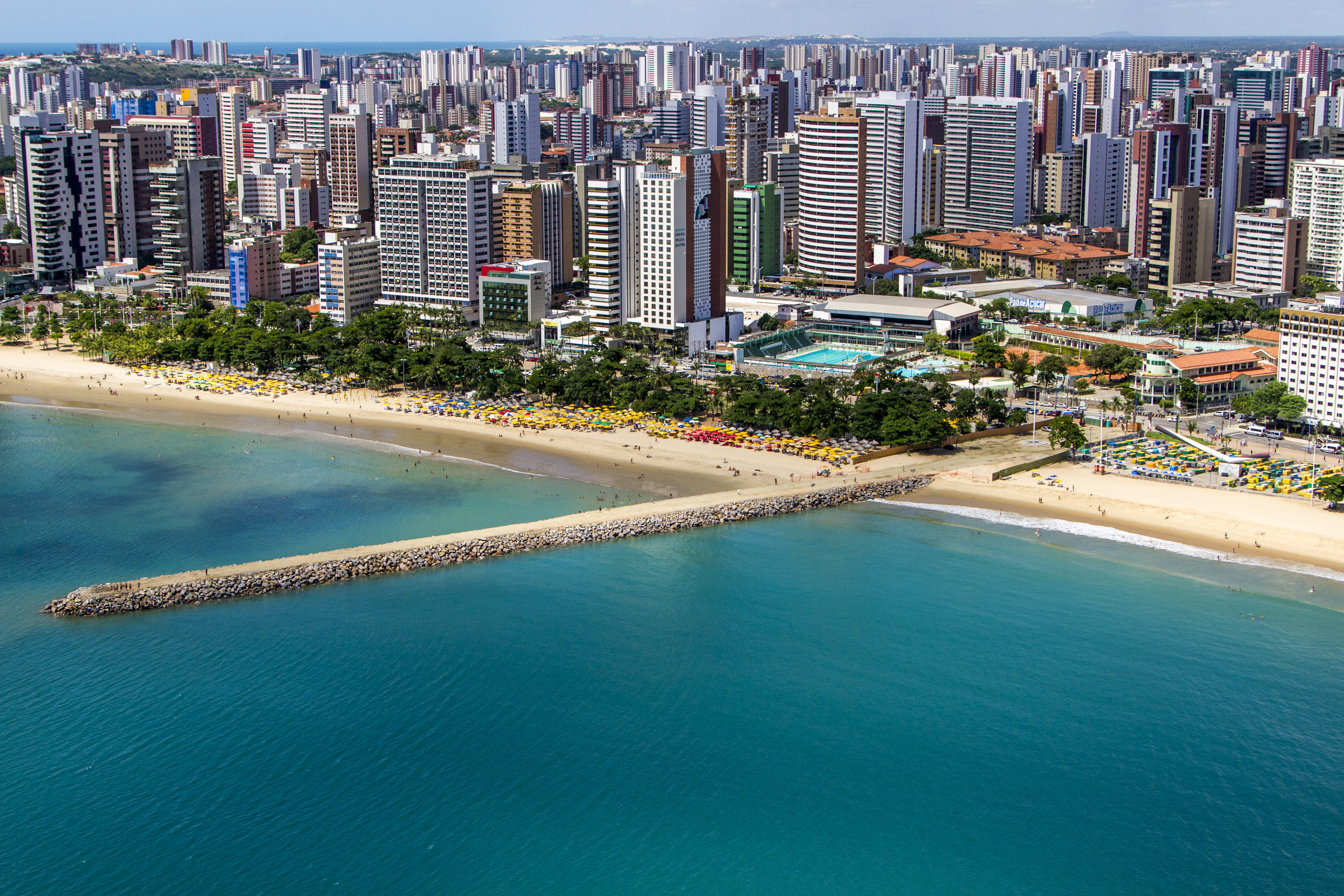 Seashore of Fortaleza (2)